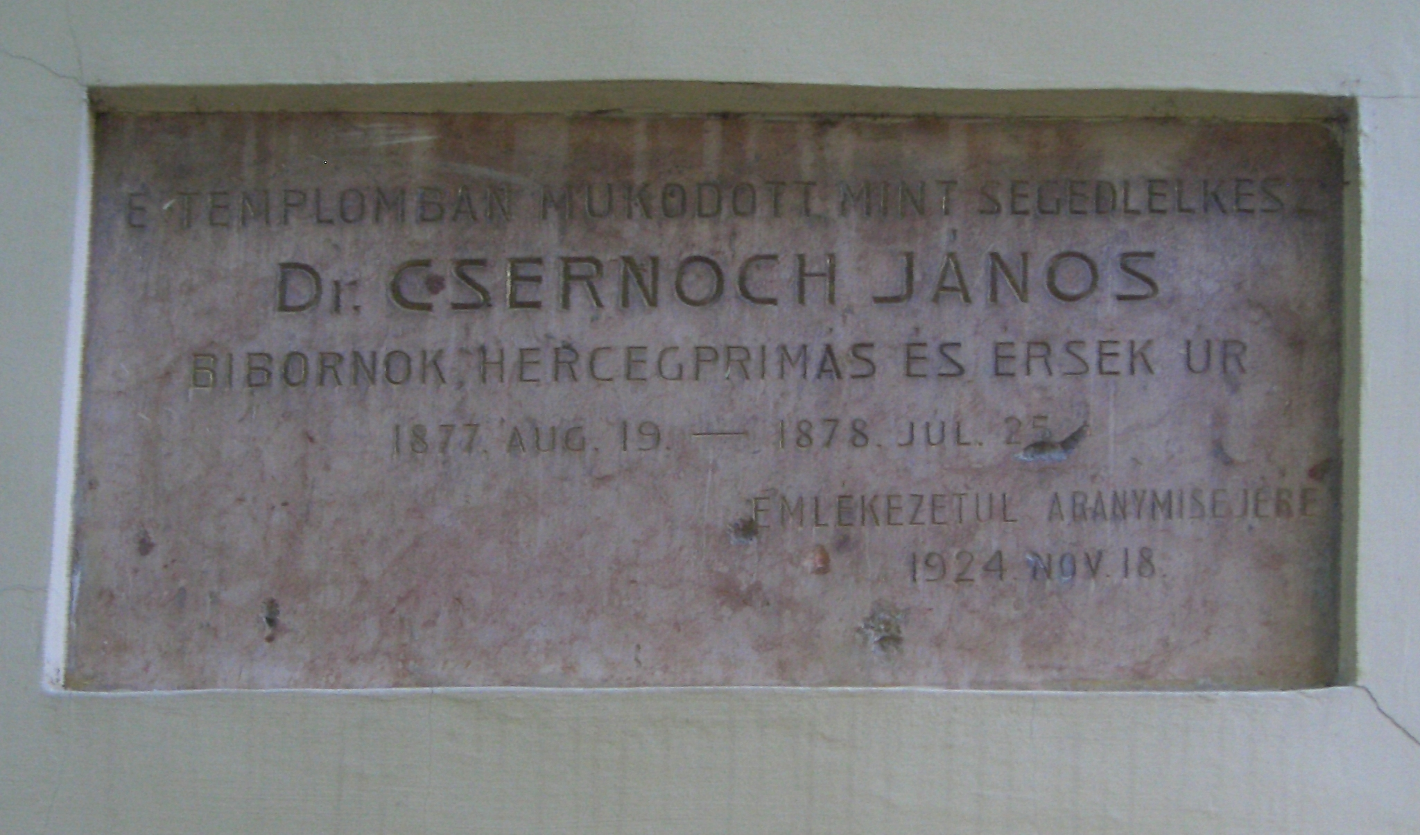 Church of Krisztinaváros, North Wall, memorial plaque for Cardinal János Csernoch, Primate Archbishop